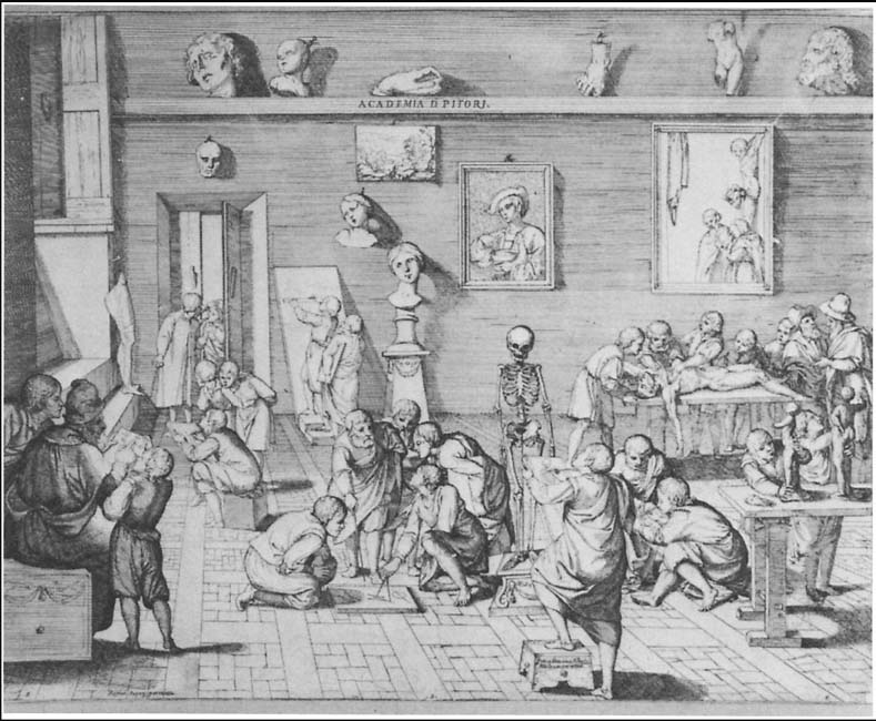 Pietro Francesco Alberti (1584–1638), A Painter's Academy in Rome, engraving; col. The Metropolitan Museum, New York